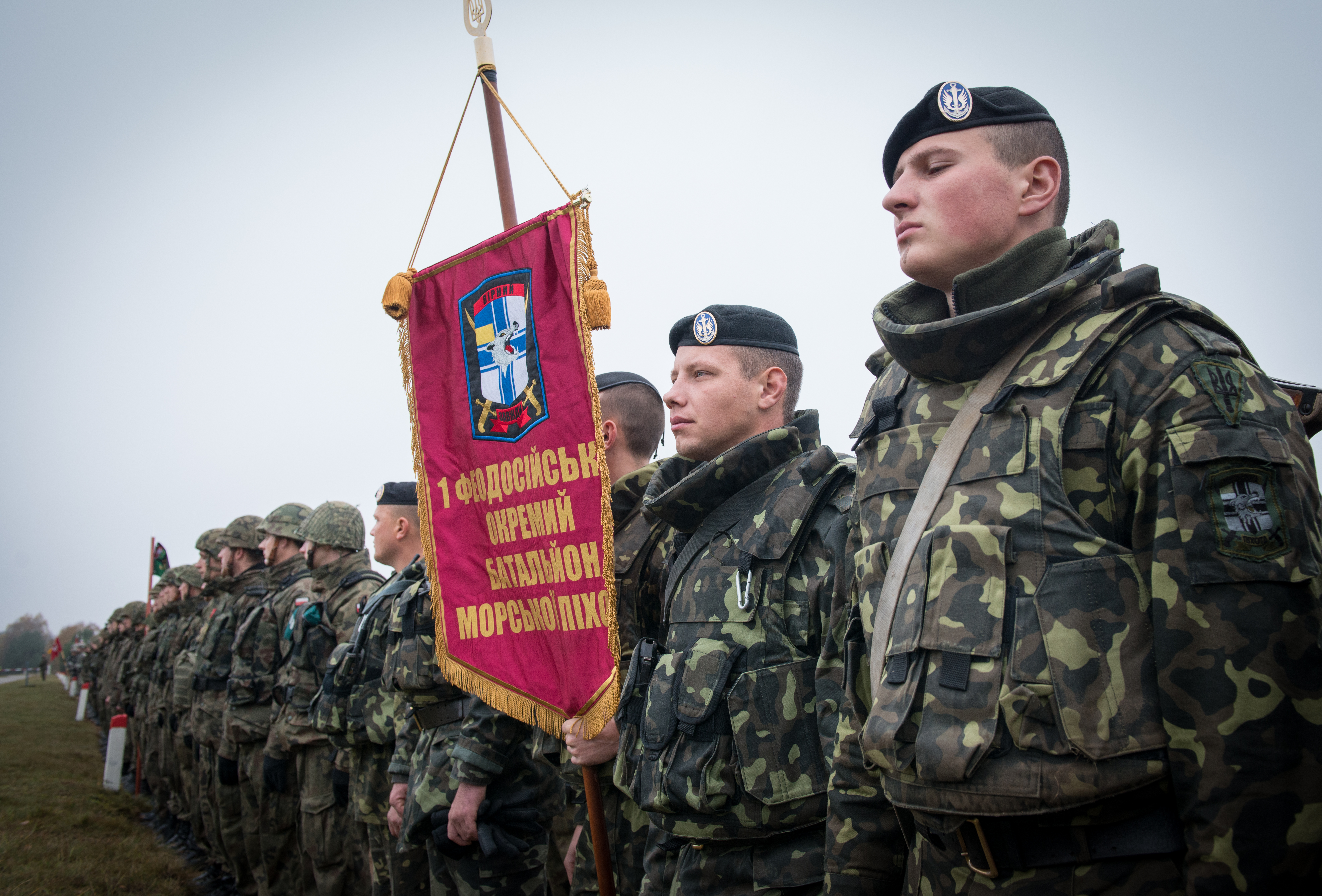 Ukrainian troops on parade during the Opening Ceremony for Ex STEADFAST JAZZ on the Drawsko Pomorskie Training Area, Poland, on Nov. 3, 2013. Exercise Steadfast Jazz 2013 is taking place from 1-9 November in a number of Alliance nations including the Baltic States and Poland. The purpose of the exercise is to train and test the NATO Response Force, a highly ready and technologically advanced multinational force made up of land, air, maritime and special forces components that the Alliance can deploy quickly wherever needed. The Steadfast series of exercises are part of NATO’s efforts to maintain connected and interoperable forces at a high-level of readiness. (NATO photo/SSgt Ian Houlding GBR Army)